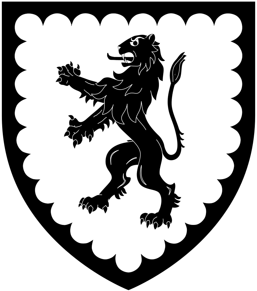 Arms of Harpur of Swarkestone Hall, Derbyshire: Argent, a lion rampant within a bordure engrailed sable, as borne by the Harpur-Crewe Baronets (Debrett's Baronetage of England, 7th Edition, 1835, p.35 [1]). The Church of St James, Swarkestone, Derbyshire, contains the Harpur Chapel, within which survive alabaster monuments to Sir Richard Harpur (d.1577) and Sir John Harpur (d.1627)[2]